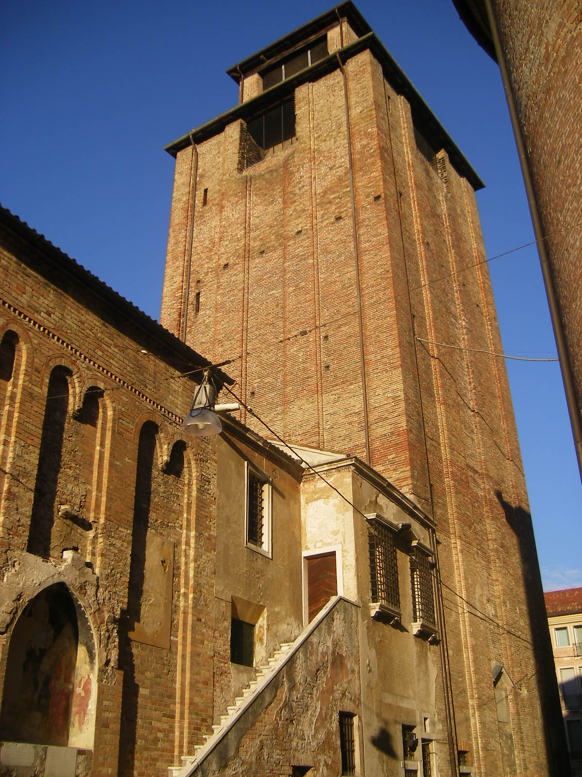 Treviso